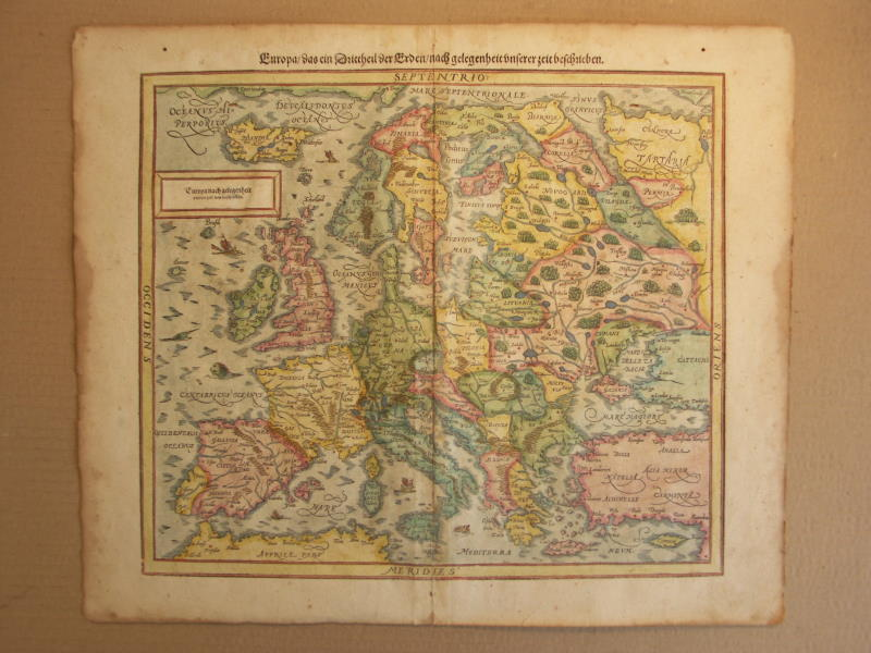 Münster's maps-- some examples from different editions (many with modern hand-coloring)